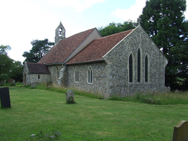 Church of St Peter in Milden, Suffolk, England. A Grade I listed medieval church.